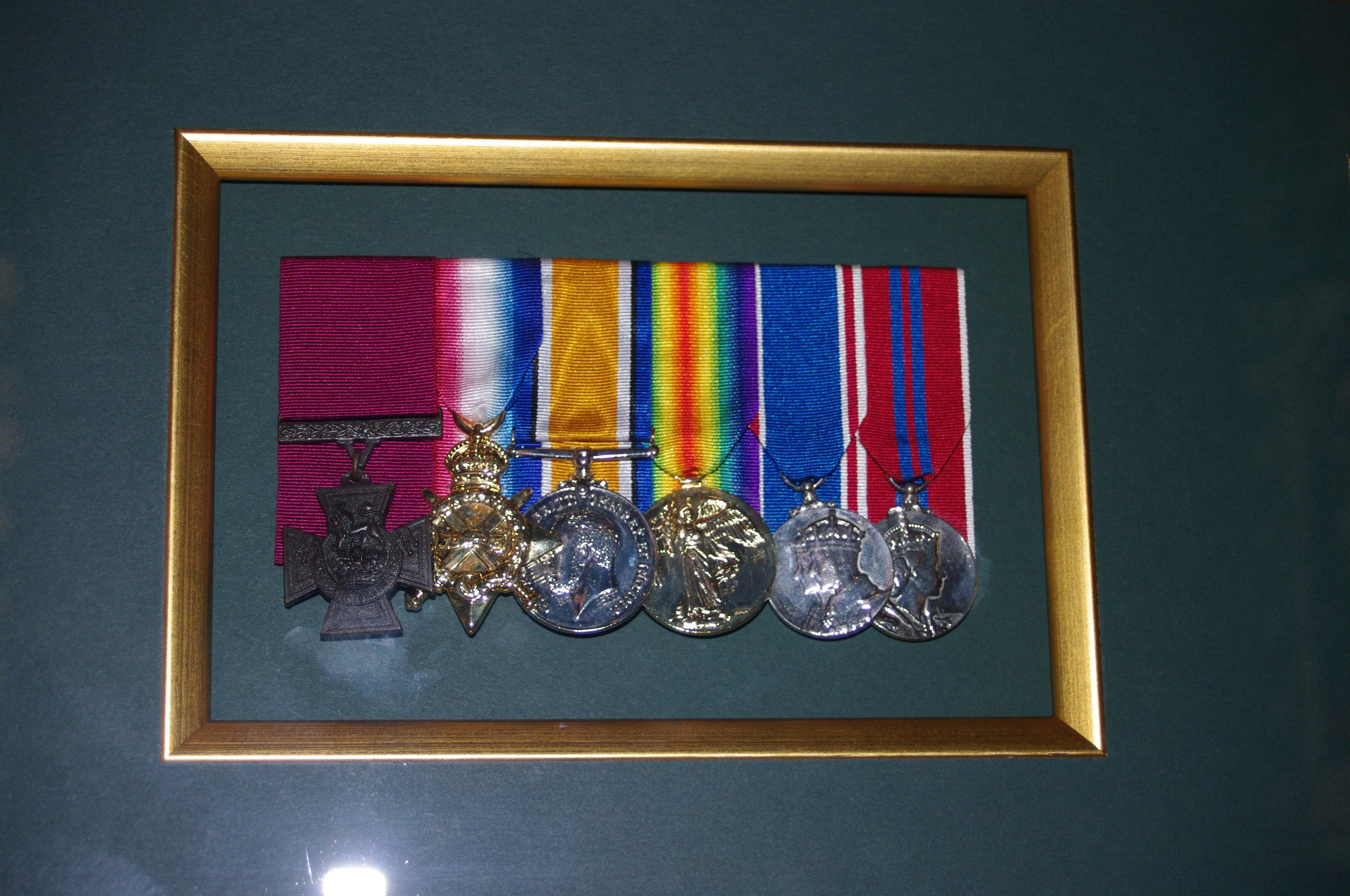 Saint George's Cathedral, Perth Clifford William King Sadlier VC (1892–28 April 1964) decorations on display in the soldiers chapel